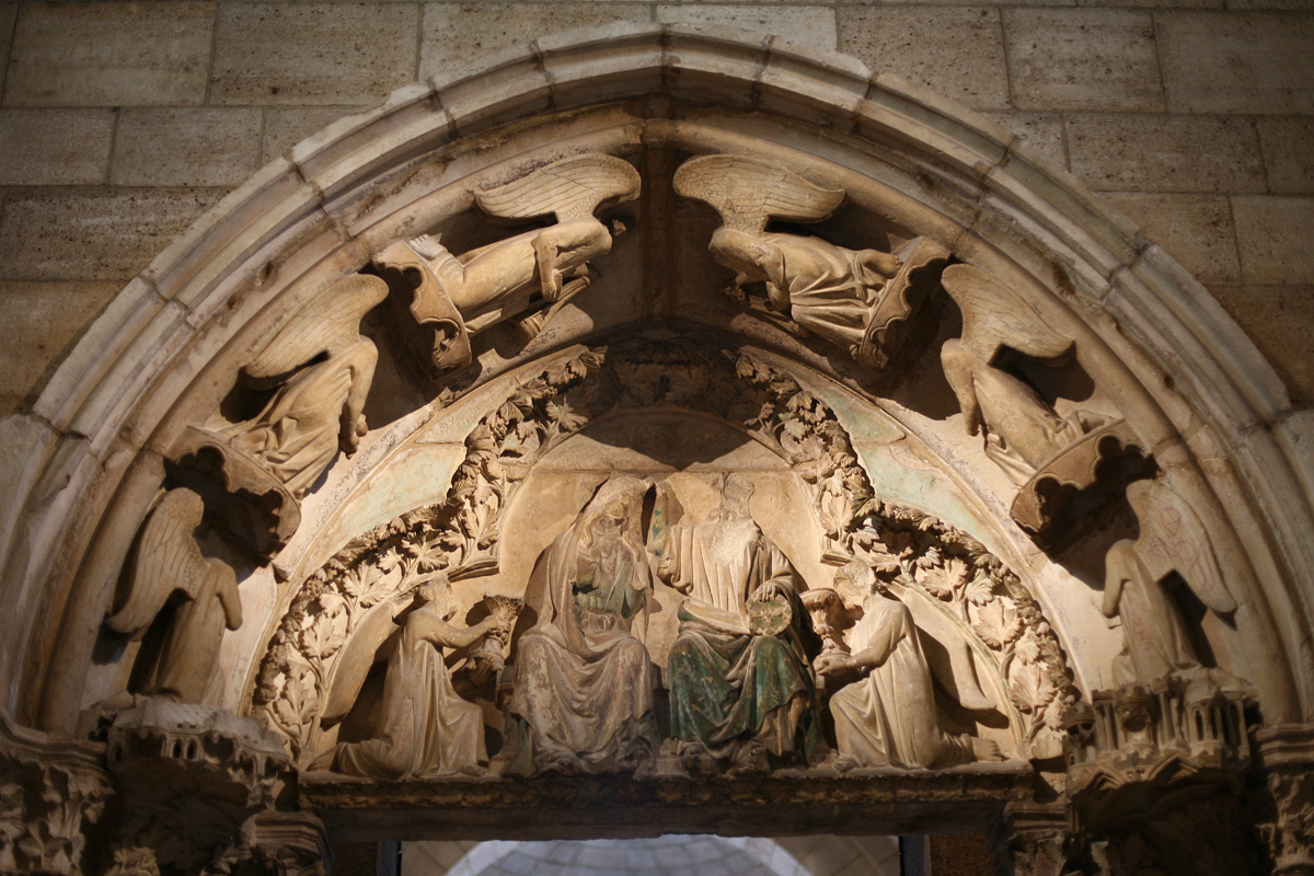 Doorway from Moutiers-Saint-Jean, ca. 1250 French White oolitic limestone with traces of paint; 15 ft. 5 in. x 12 ft. 7 in. (469.9 x 383.5 cm) overall 9 ft. 2 in. x 5 ft. 6 in. (279.4 x 167.6 cm) opening The Metropolitan Museum of Art, New York, The Cloisters Collection, 1932 (32.147) View at the Metropolitan Museum of Art website Wikipedia Loves Art at the Metropolitan Museum of Art This photo of item # 32.147 at the Metropolitan Museum of Art was contributed under the team name "shooting_brooklyn" as part of the Wikipedia Loves Art project in February 2009. Metropolitan Museum of Art The original photograph on Flickr was taken by shooting brooklyn—please add a comment to the original Flickr page whenever a use has been made on Wikipedia or another project. Project galleries on Flickr: this institution, this team